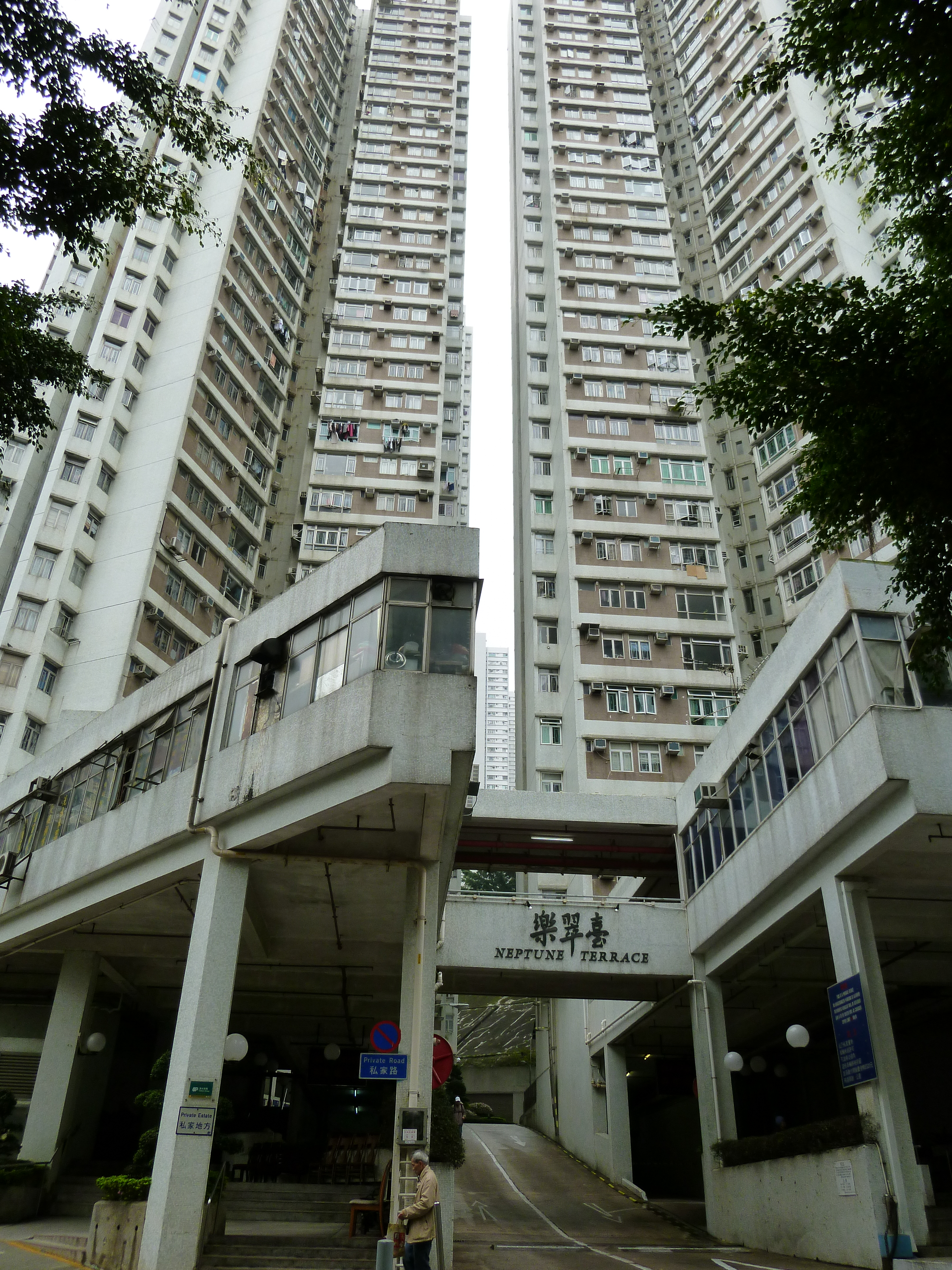 Neptune Terrace (Tai Man Street, Chai Wan, Hong Kong)